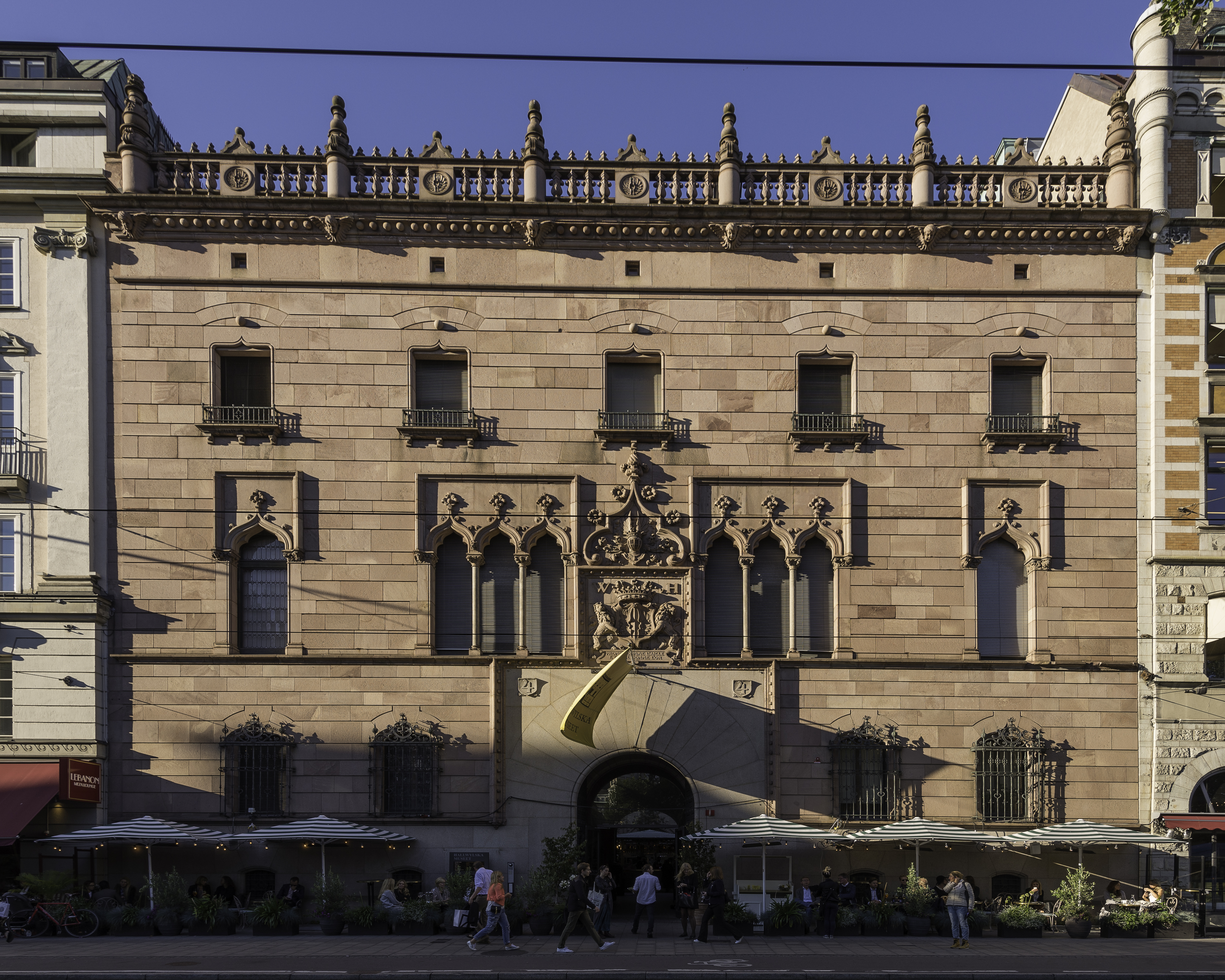 The Halllwyl Museum is a museum of cultural history in central Stockholm, Swseden. The museum is located in the city centre in a private city palace, which was custom-built towards the end of the 19th Century to house the collections of various objects of Wilhemina von Hallwyl. The museum is owned by a public foundation and is administered by the Swedish Government Agency Livrustkammaren och Skoklosters slott med Stiftelsen Hallwylska Museet.